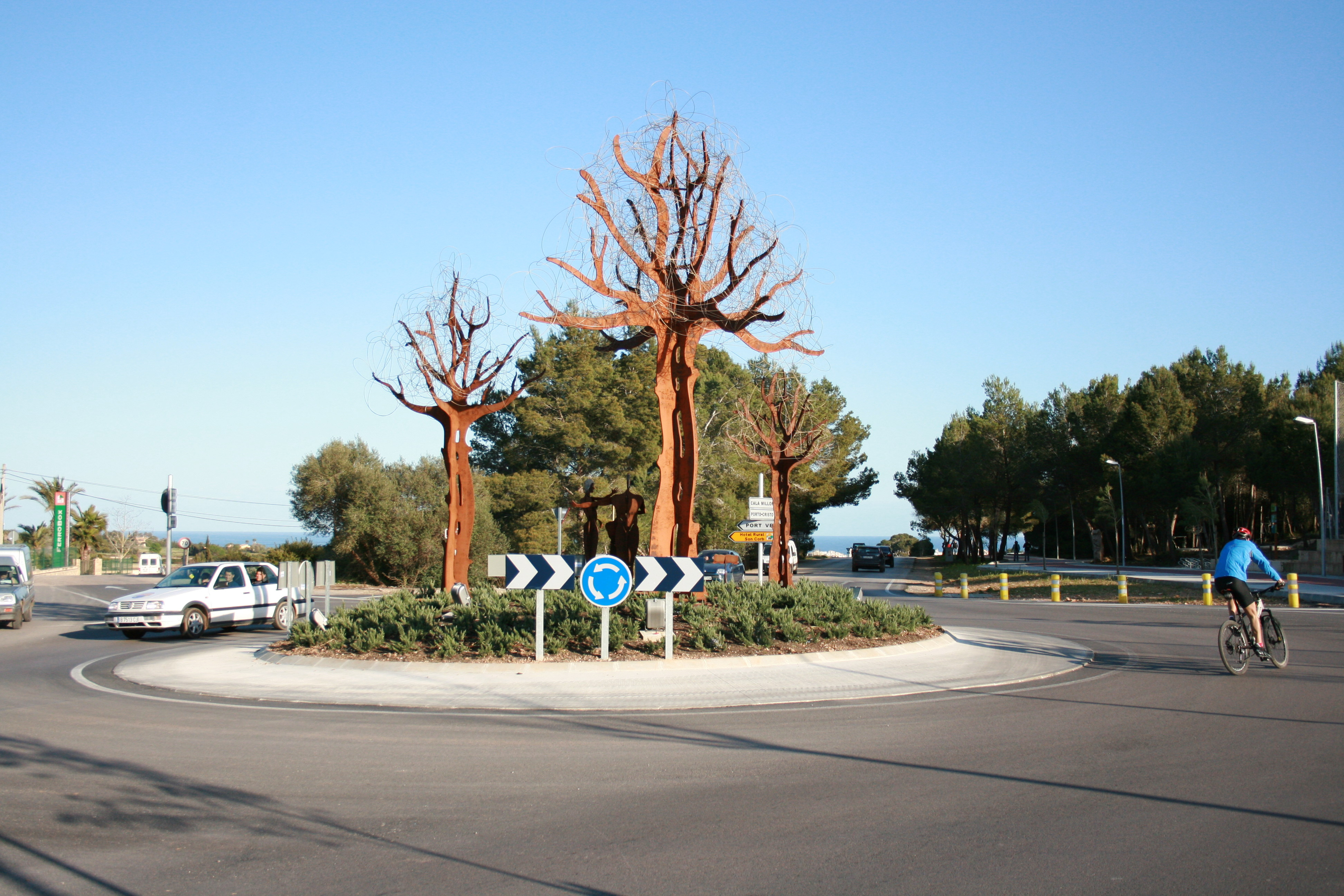 Pins de Son Servera at the roundabout junction of the MA-4026 (Carrer de Formentor/Calle de Formentor) and the MA-4023 (Ctra de Porto Cristo a Son Servera) in Son Servera, Mallorca